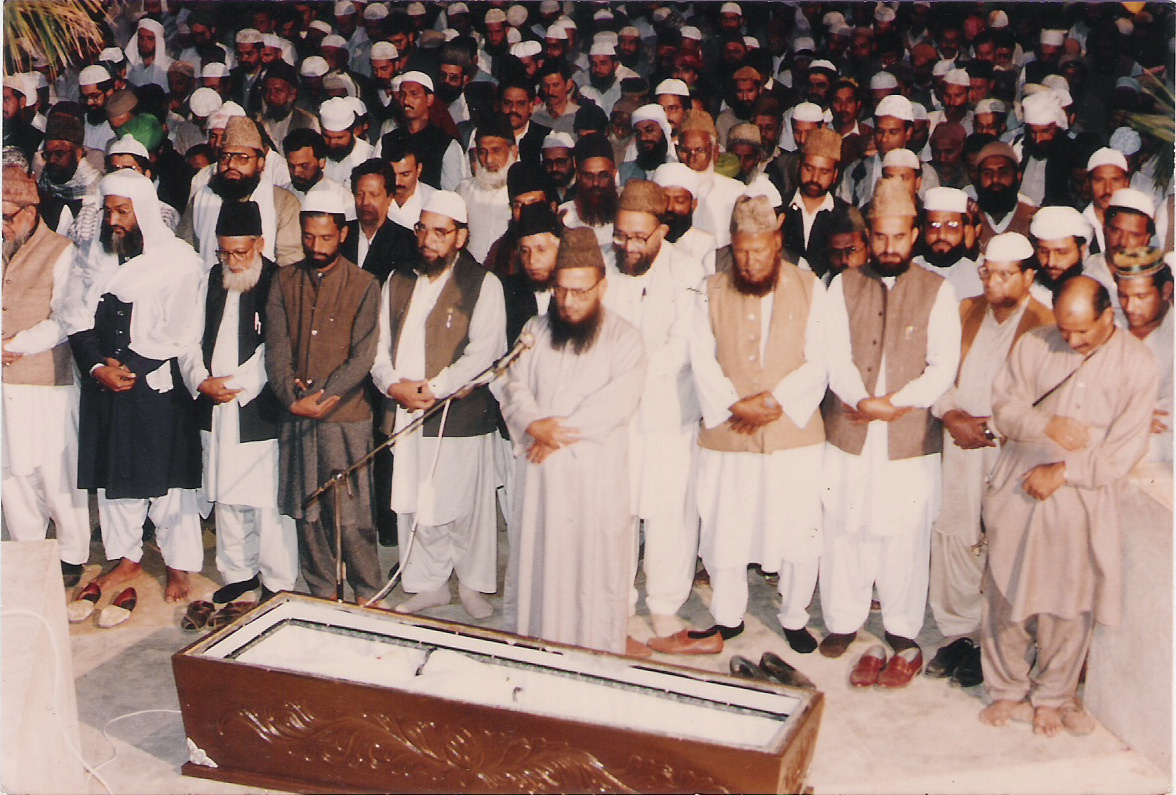 Namaze Janaza (funeral procession) lead by Allama Syed Sa'adat Ali Qadri s/o Mufti Syed Masud Ali Qadri .